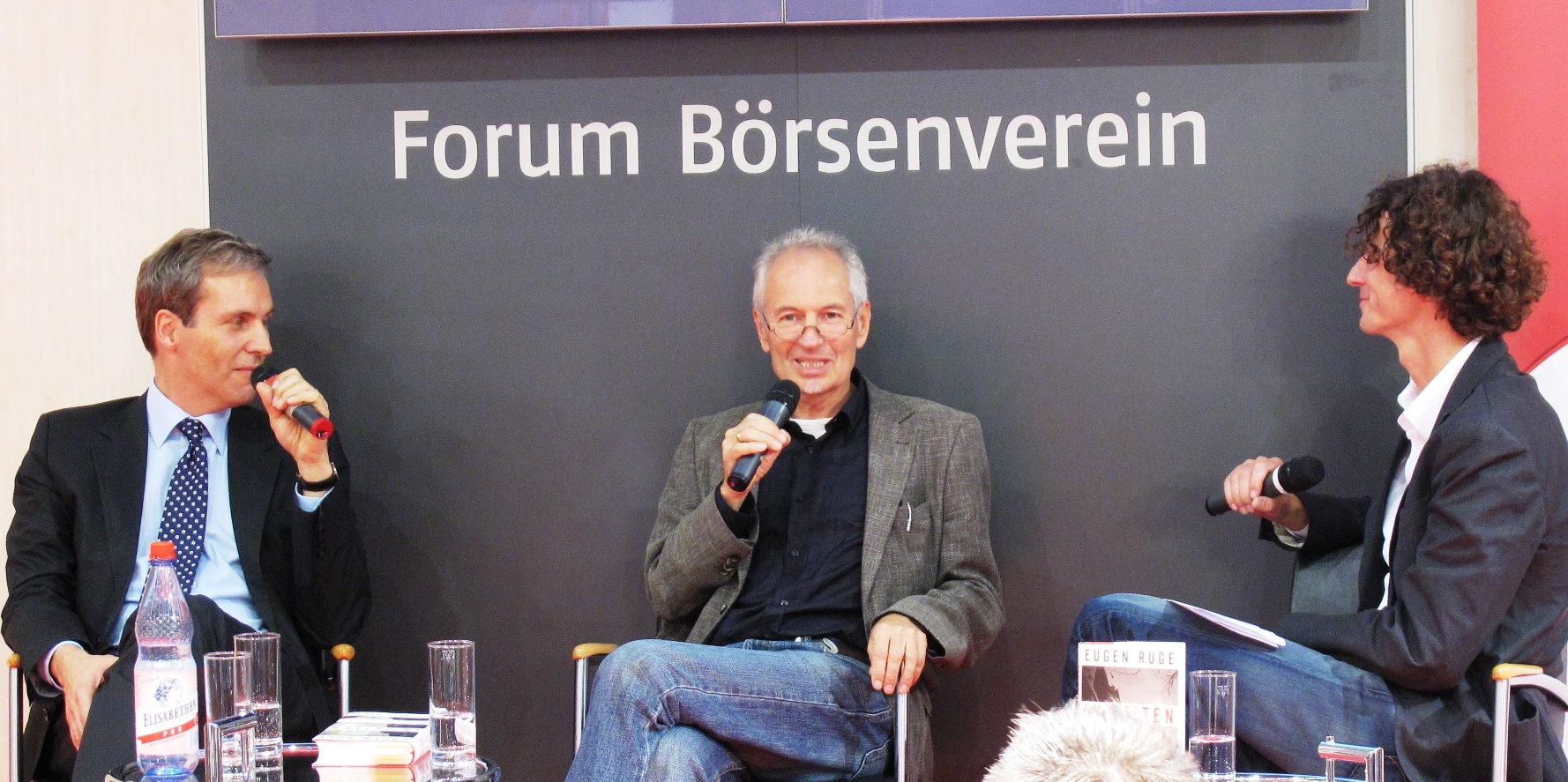 Frankfurt Book Fair 2011